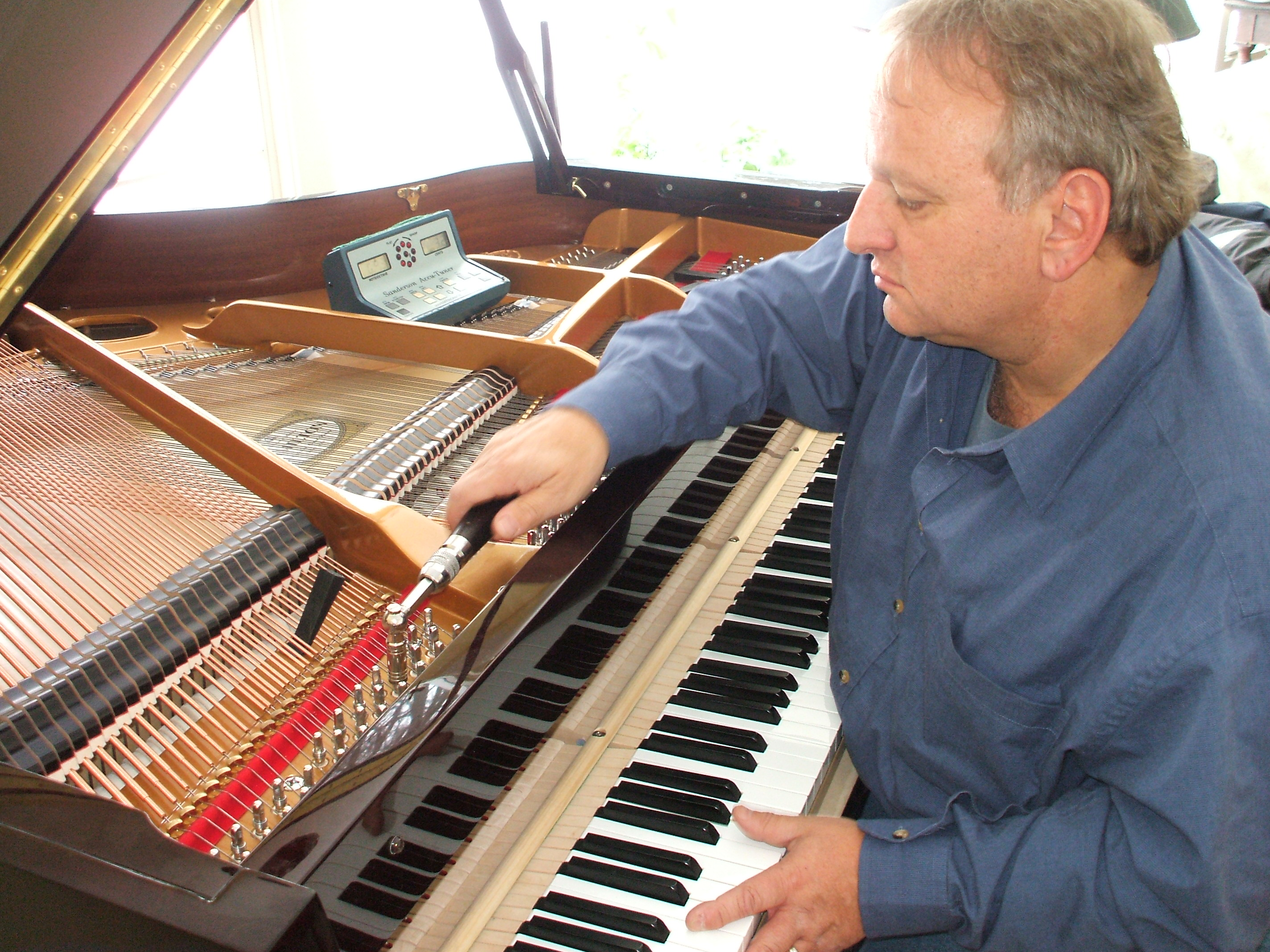 Piano tuner